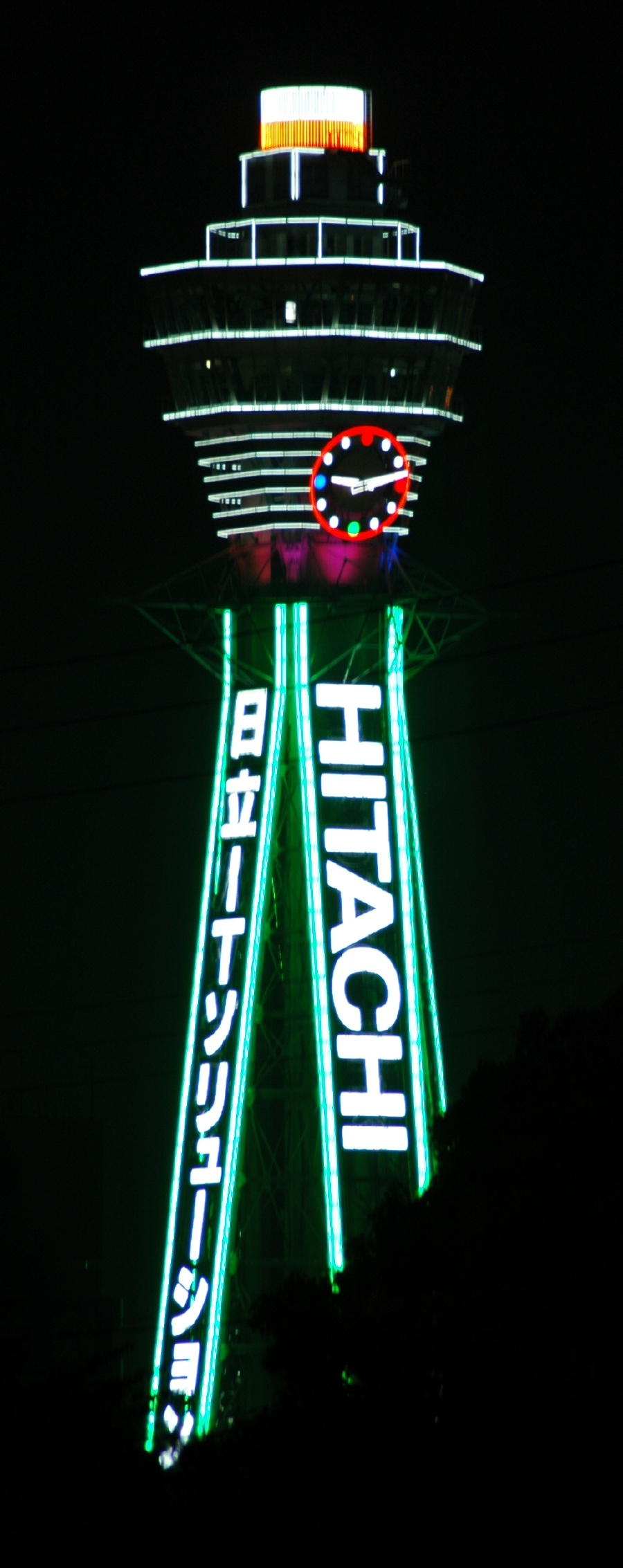 South and east sides of tower, Osaka, Japan. Picture taken near east entrance to Tennoji park.